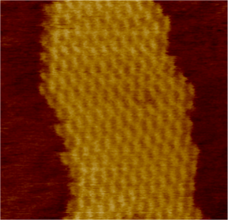 Atomic force micrograph of a two-dimensional DX DNA array on a mica surface, of the type used in DNA nanotechnology. Individual DX molecules are visible within the array. The field width is 150 nm.